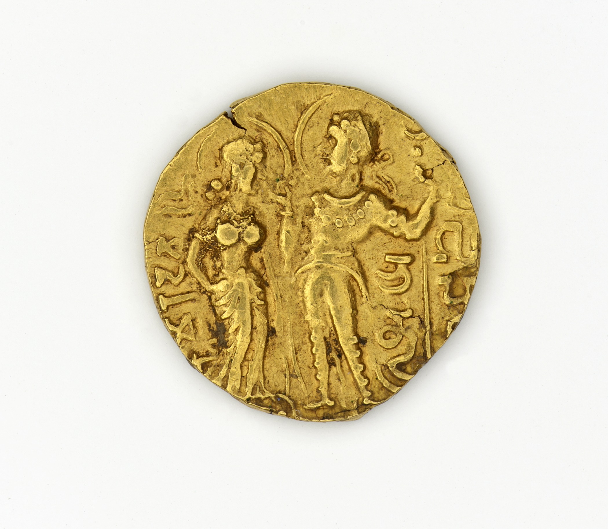 India, circa 320 Tools and Equipment; coins Gold Gift of Anna Bing Arnold and Justin Dart (M.77.55.15) South and Southeast Asian Art